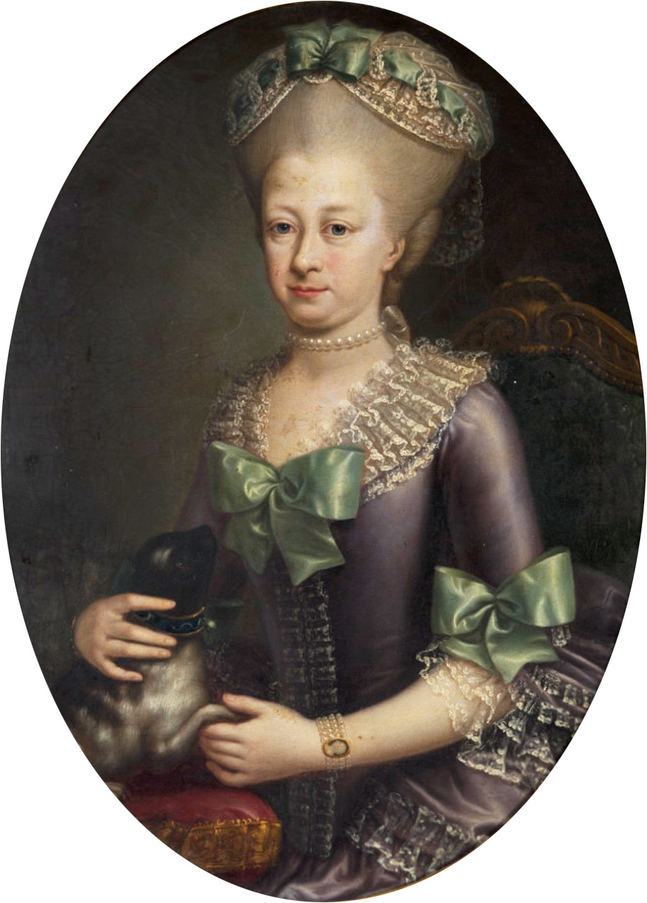 Portrait Princess Maria Carolina of Savoy (1764-1782)